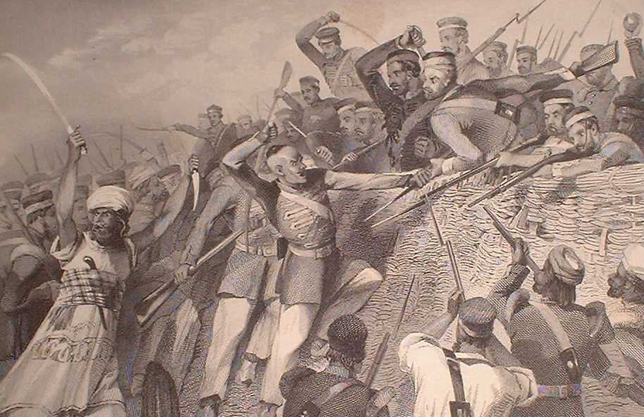 "Attack of the Mutineers on the Redan Battery at Lucknow, July 30th, 1857," a steel engraving, ca.1860